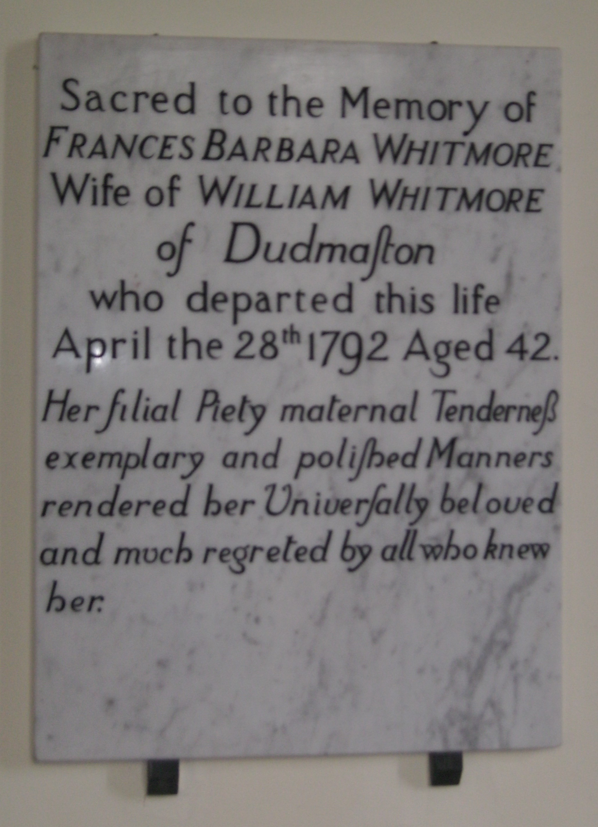 Memorial tablet to Frances Whitmore, nee Lister, mother of William Wolryche-Whitmore, Whig politician. St. Andrew's church, Quatt.